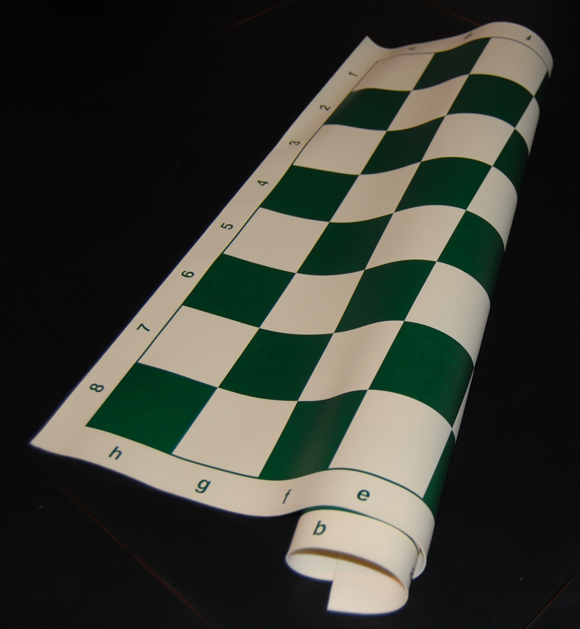 Common vinyl roll-up chessboard